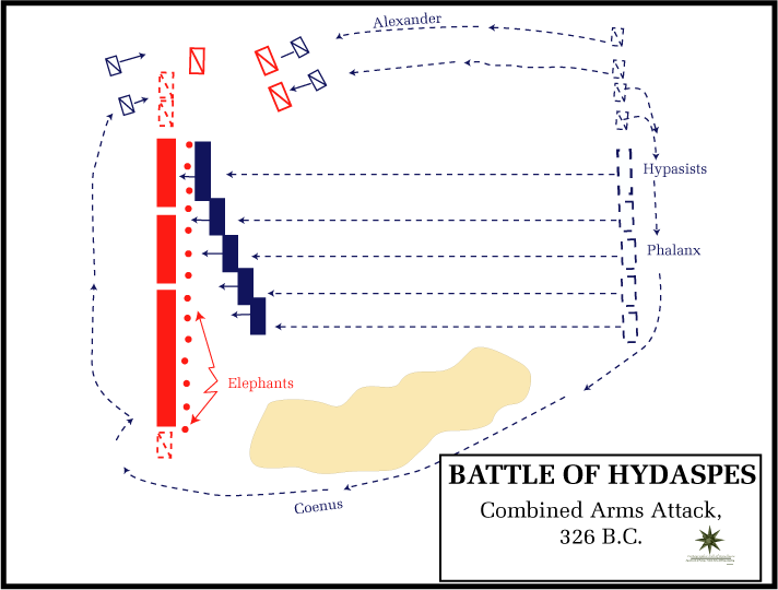 The Battle of Hydaspes, Combined arms attack.